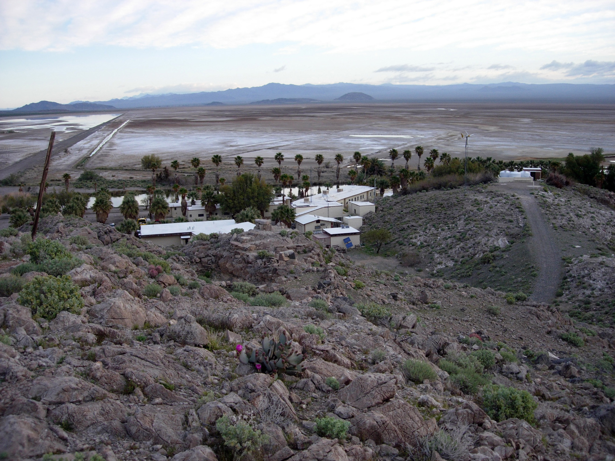 The Desert Studies Center at Zzyzx Springs, California.